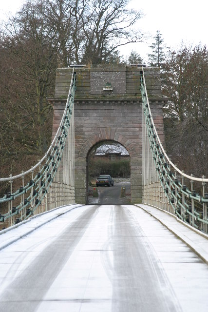 Union Bridge. Photograph taken from the English side.